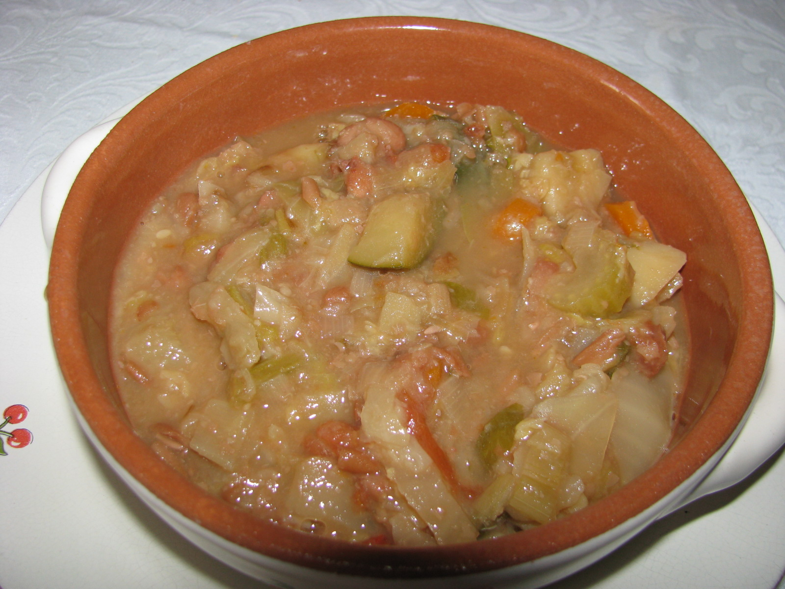 Ribollita toscana: home-made Tuscan vegetable soup